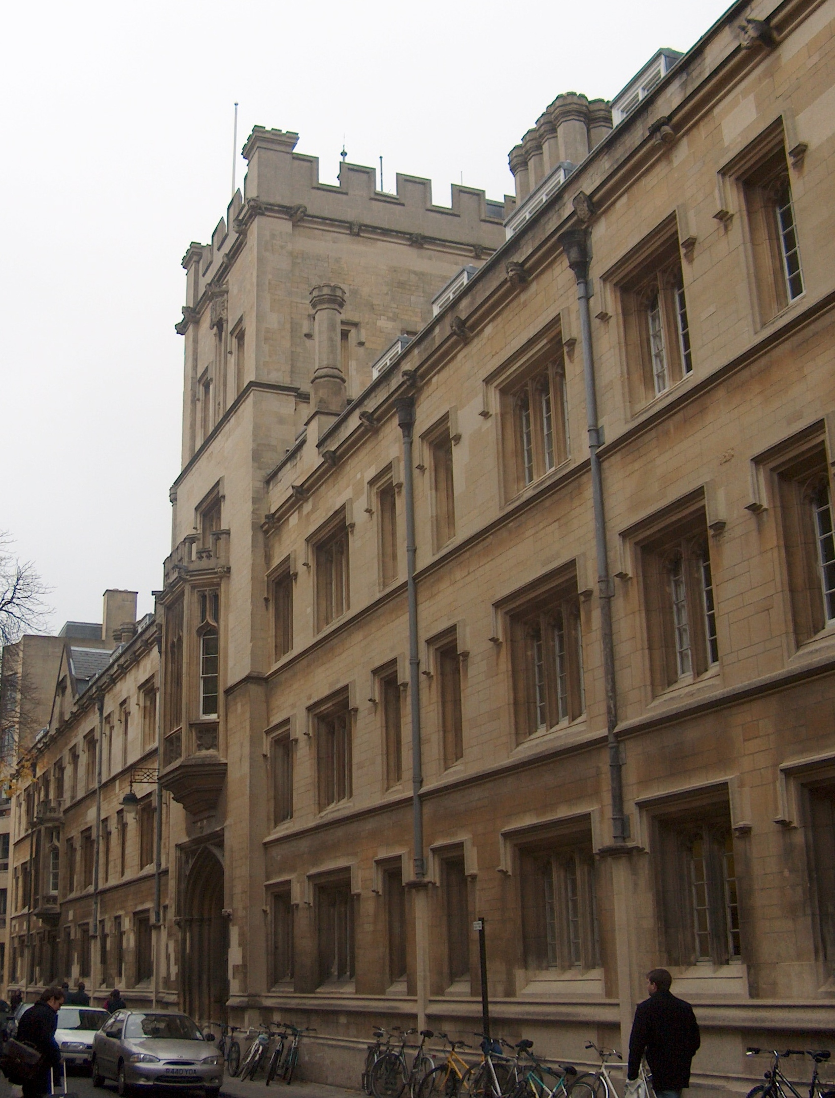 Exeter College, Turl Street, Oxford, England.